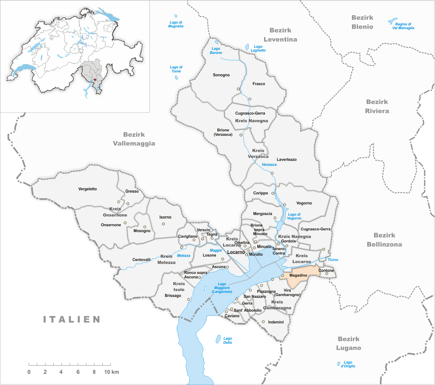 Municipality Magadino Artist: Tschubby